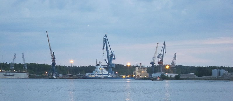 Finnish icebreakers Kontio and Urho docked for repairing at Turku Repair Yard, Naantali, Finland. Photographed from Luonnonmaa, Naantali.